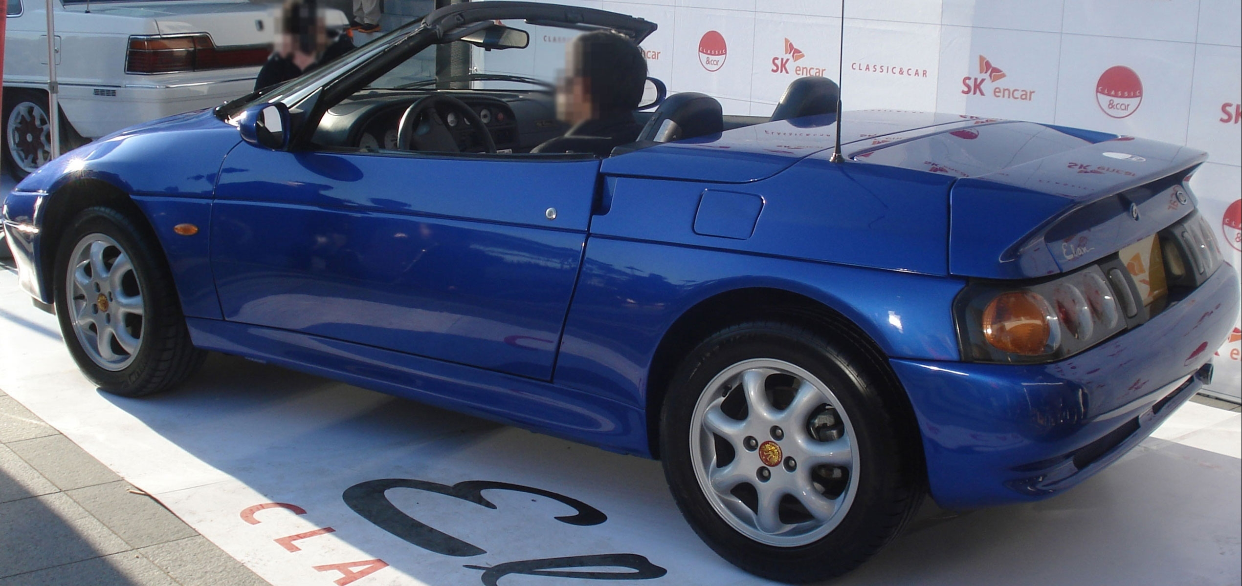 Kia Elan